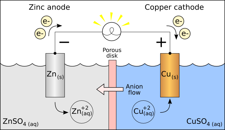 A revised copy of the Wikimedia Commons galvanic cell diagram/image as it existed there on 15 March 2007.